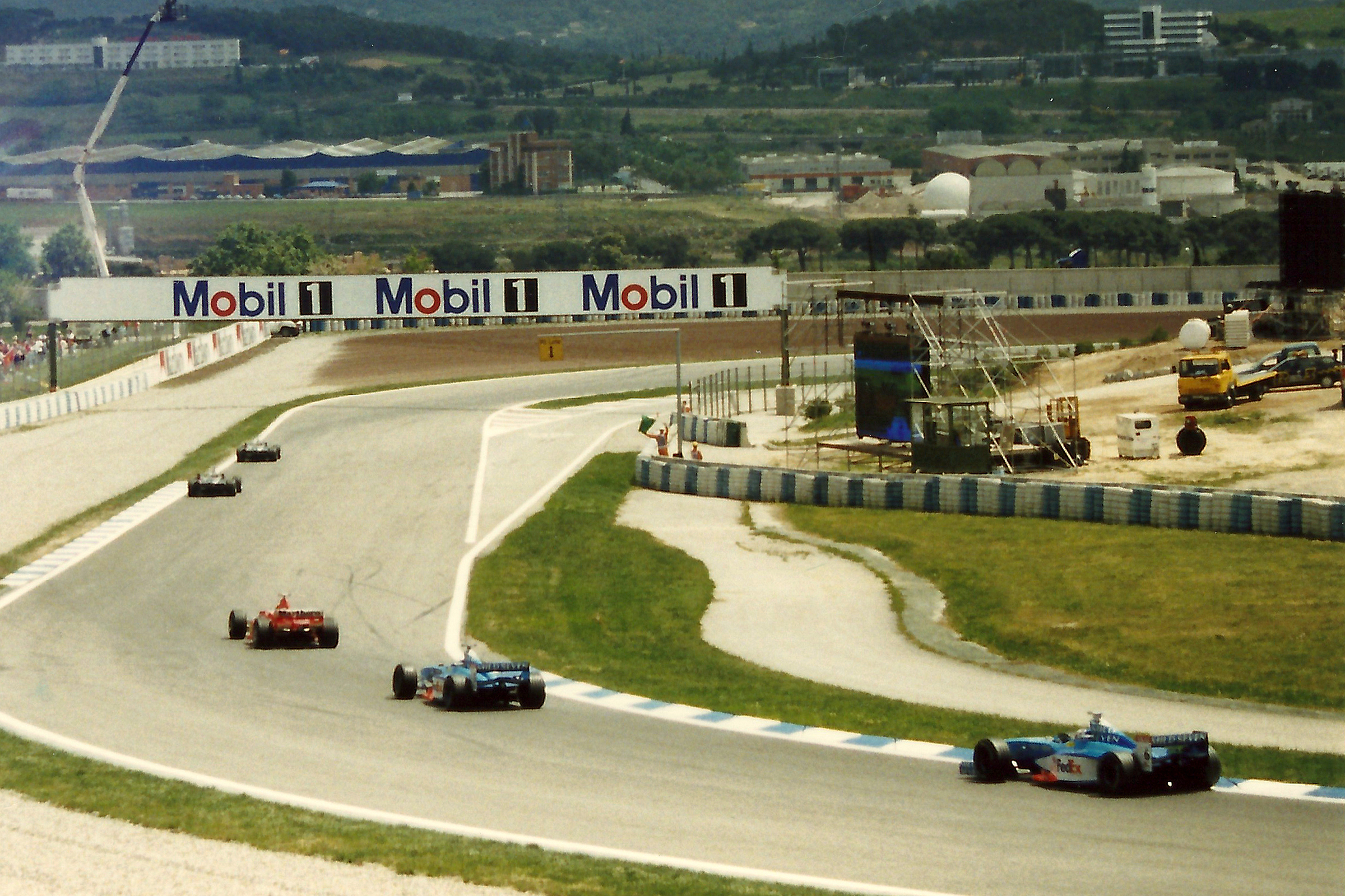 Rounding the final turn before the start: Hakkinen, Coultard, Schumacher, Fisichella, and Wurz.